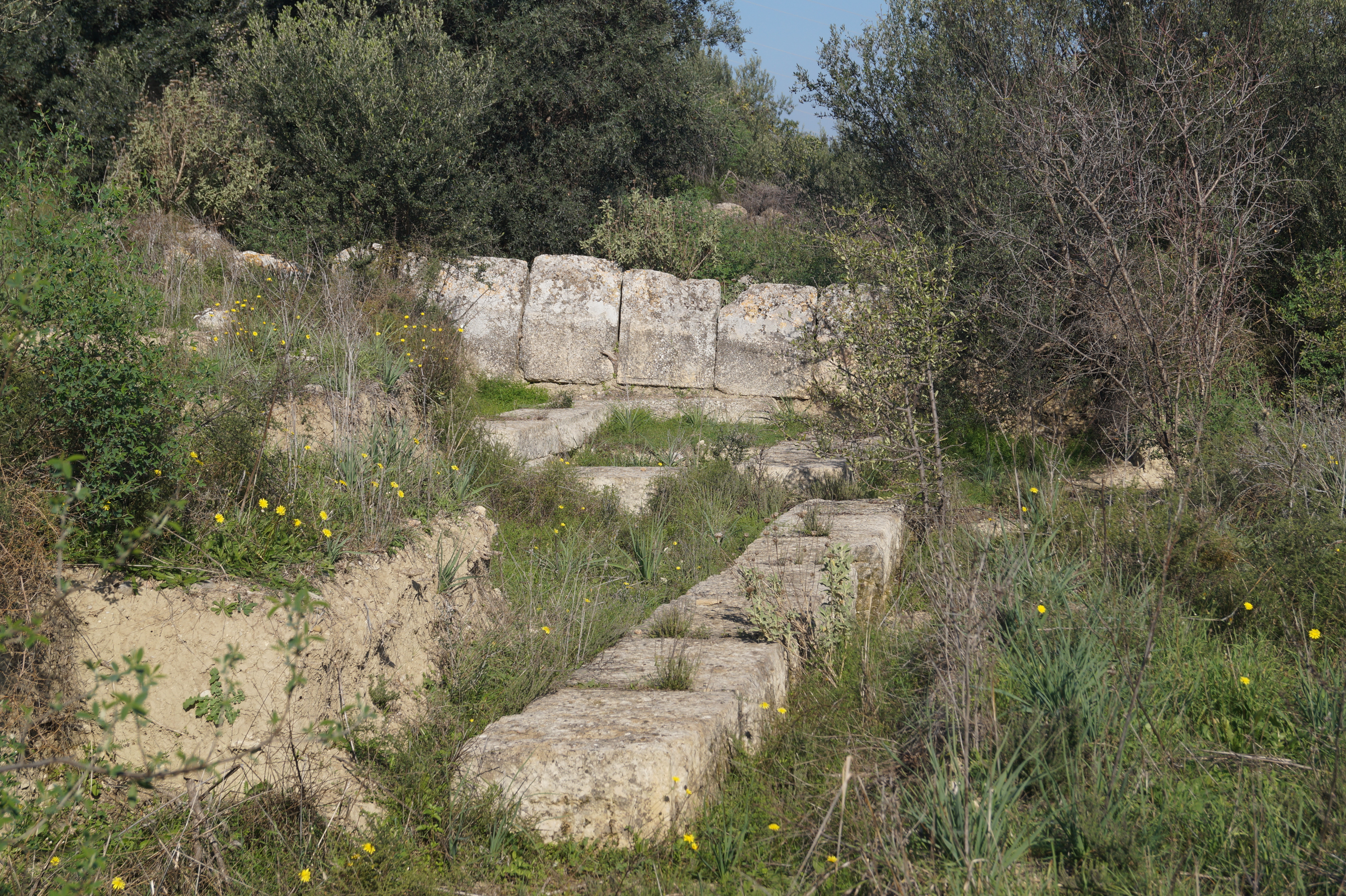 Archaies Kleones, Corinthia, Greece: Propylon and wall of the terrace building on the lower acropolis.